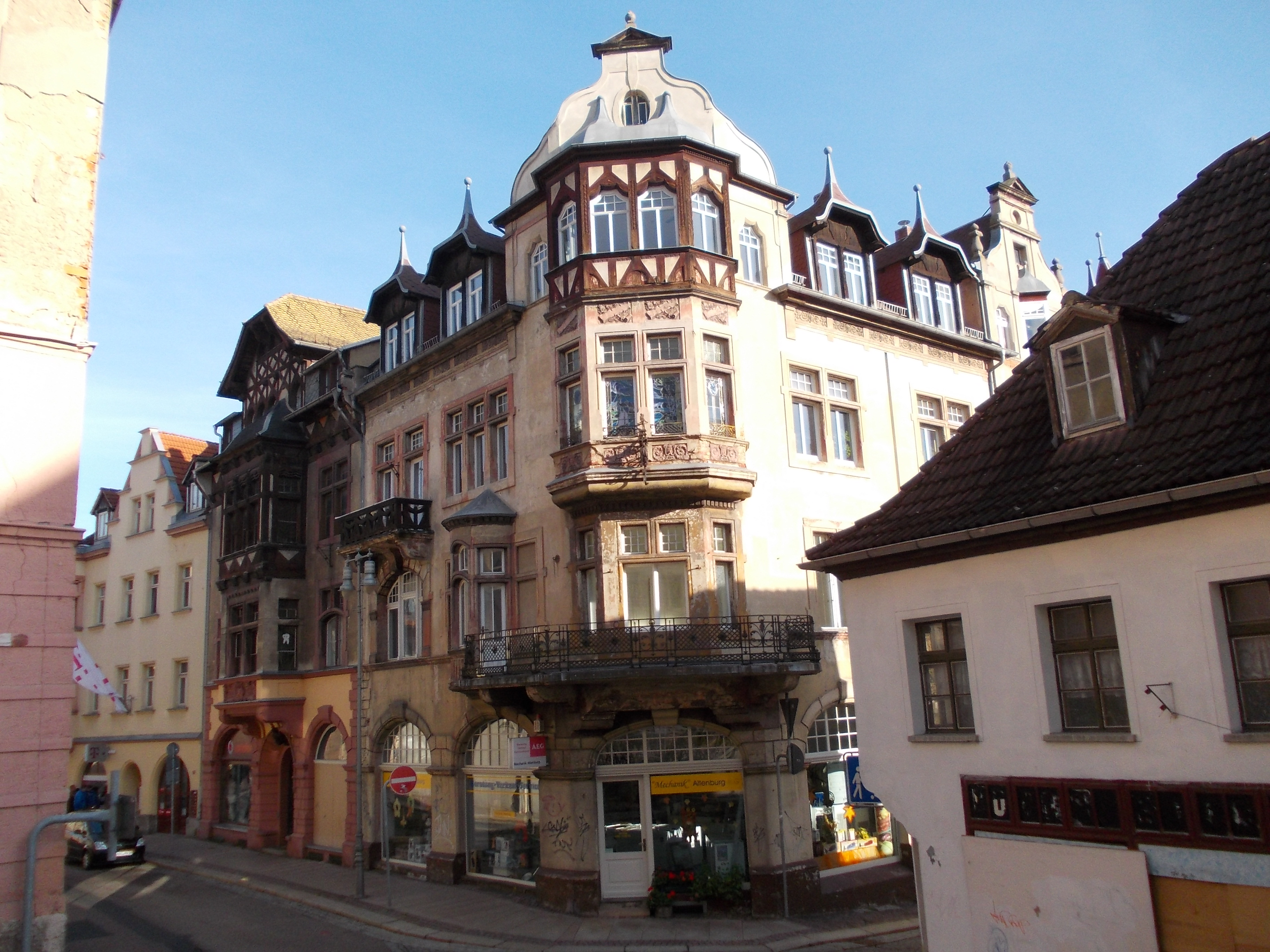 No. 35 at Wallstrasse in Altenburg (Thuringia)